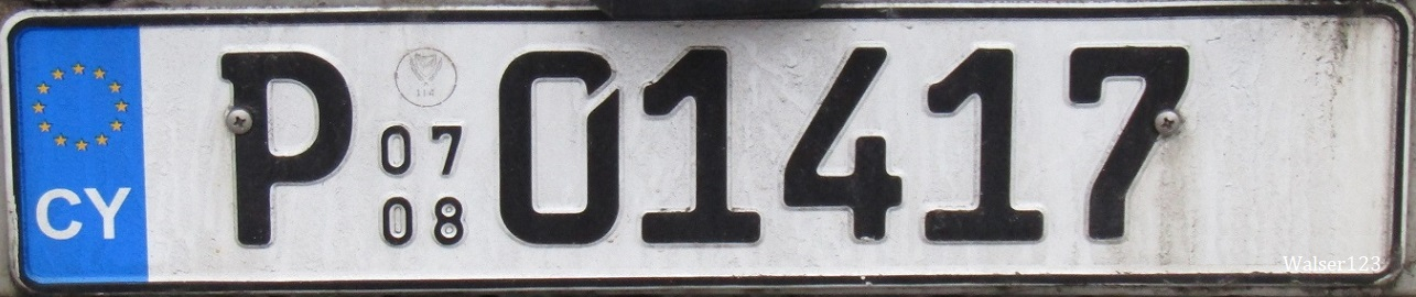 2013 Cyprus trailer plate P 01417